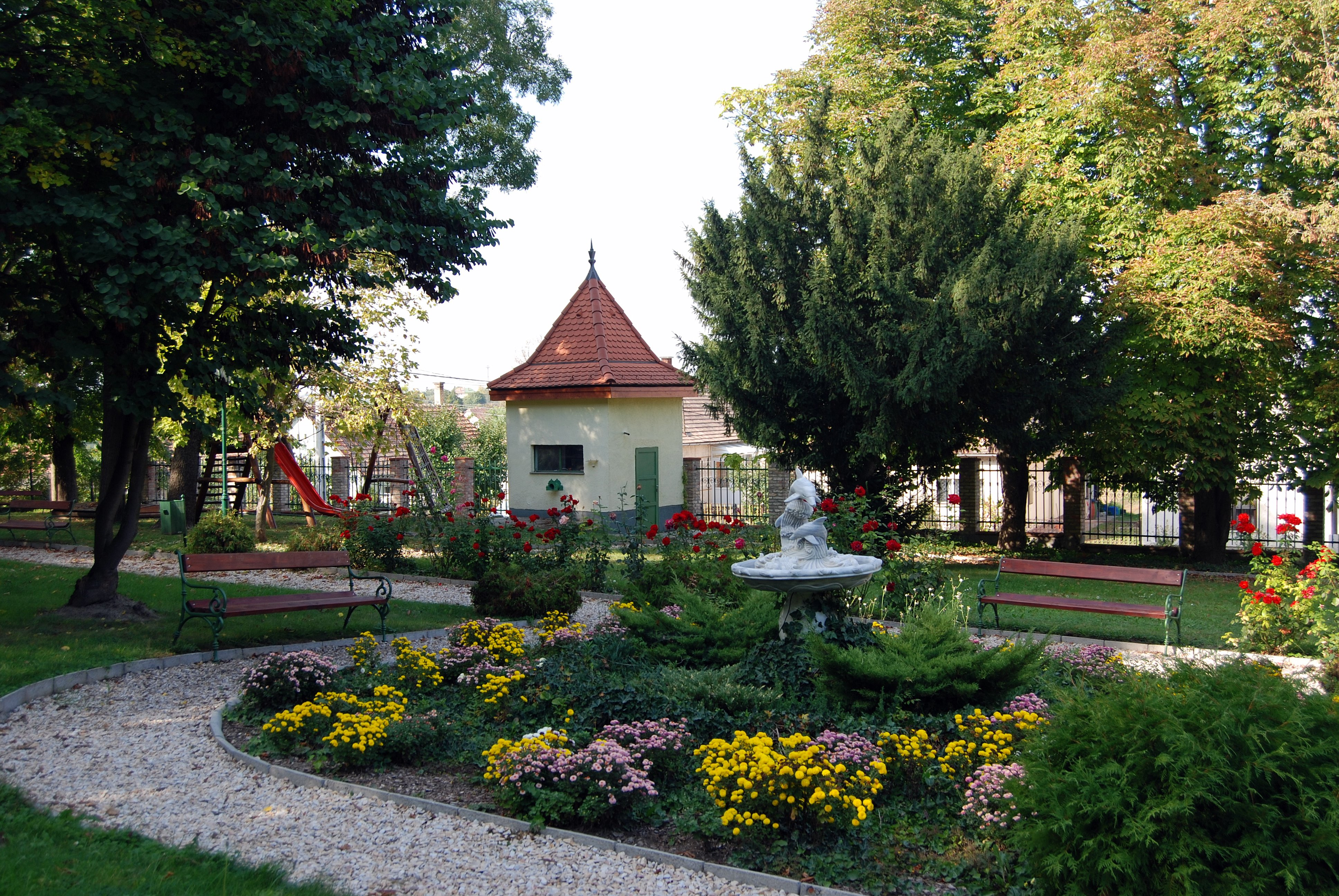 Well manicured lawns and flower beds awaits the guests of this top class Hotel.